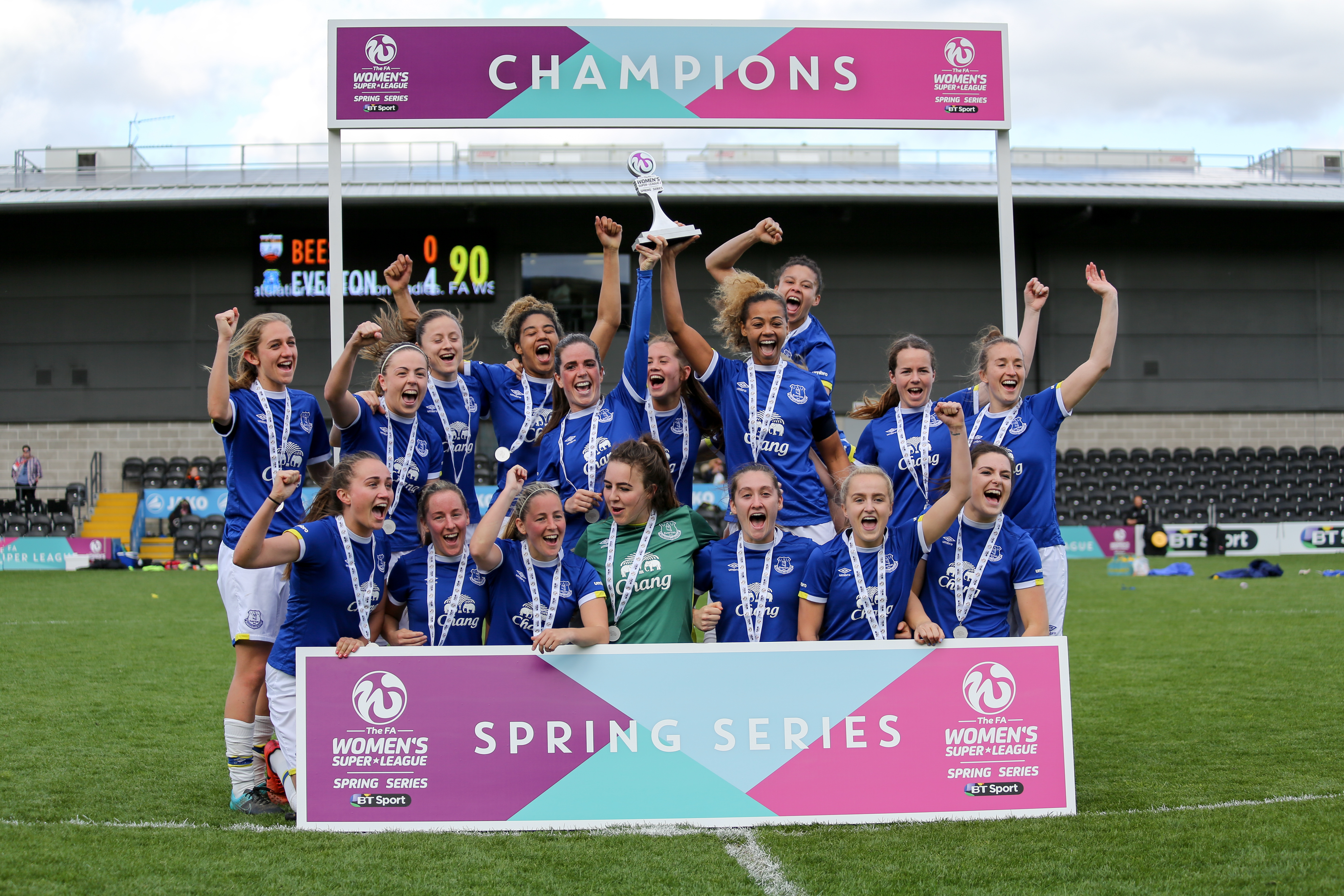 London Bees v Everton LFC, 20 May 2017 – Everton celebrates winning the FA WSL 2 Spring Series